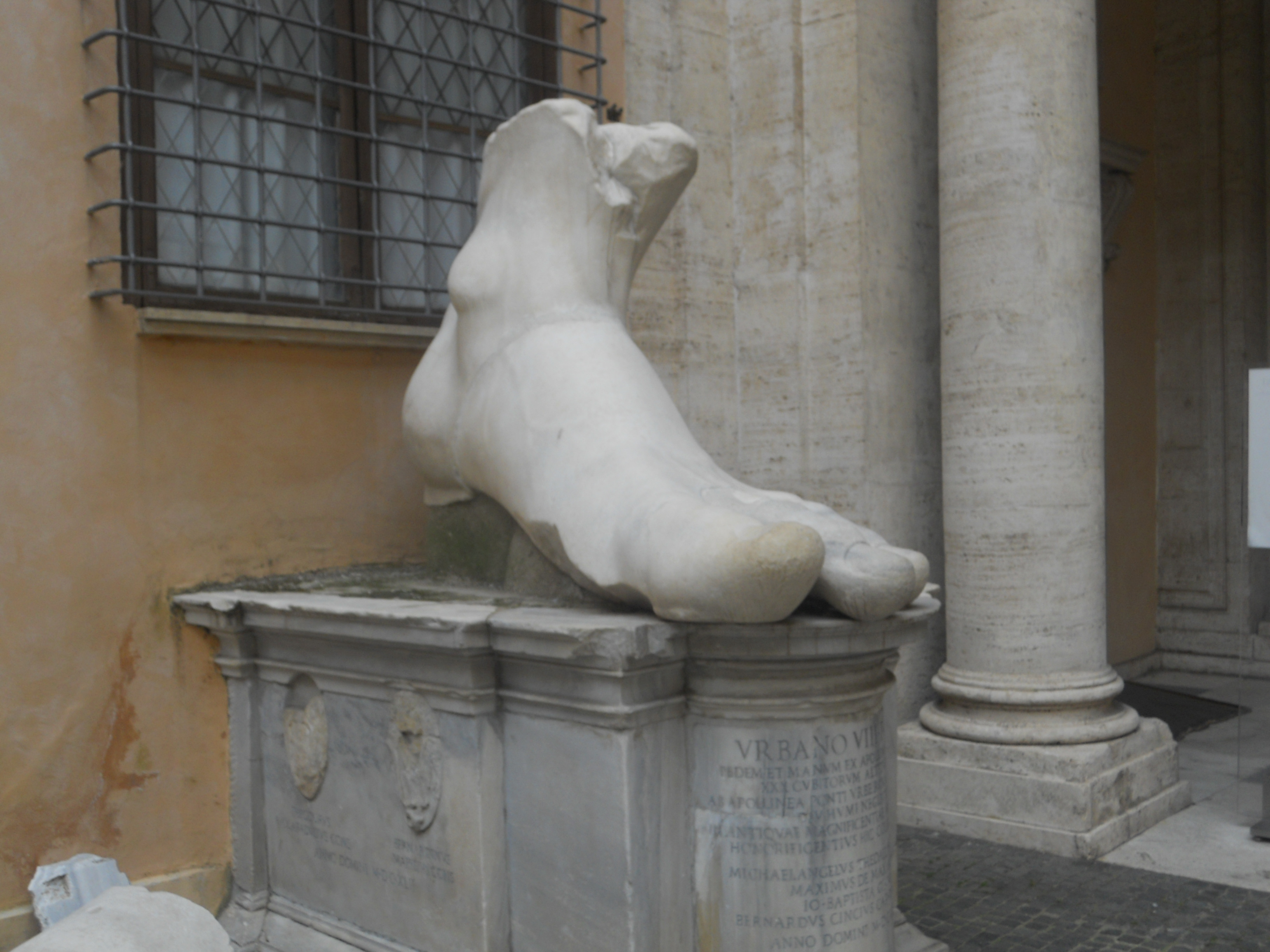 Colossus of Constantine Foot